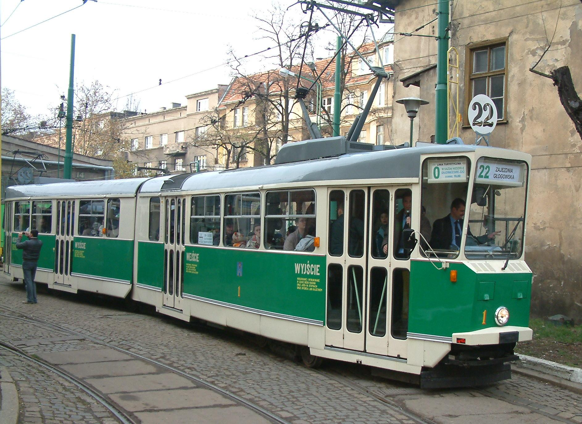 Konstal 102N tram (#1, built 1969) in Poznań, Gajowa Depot, Poland.